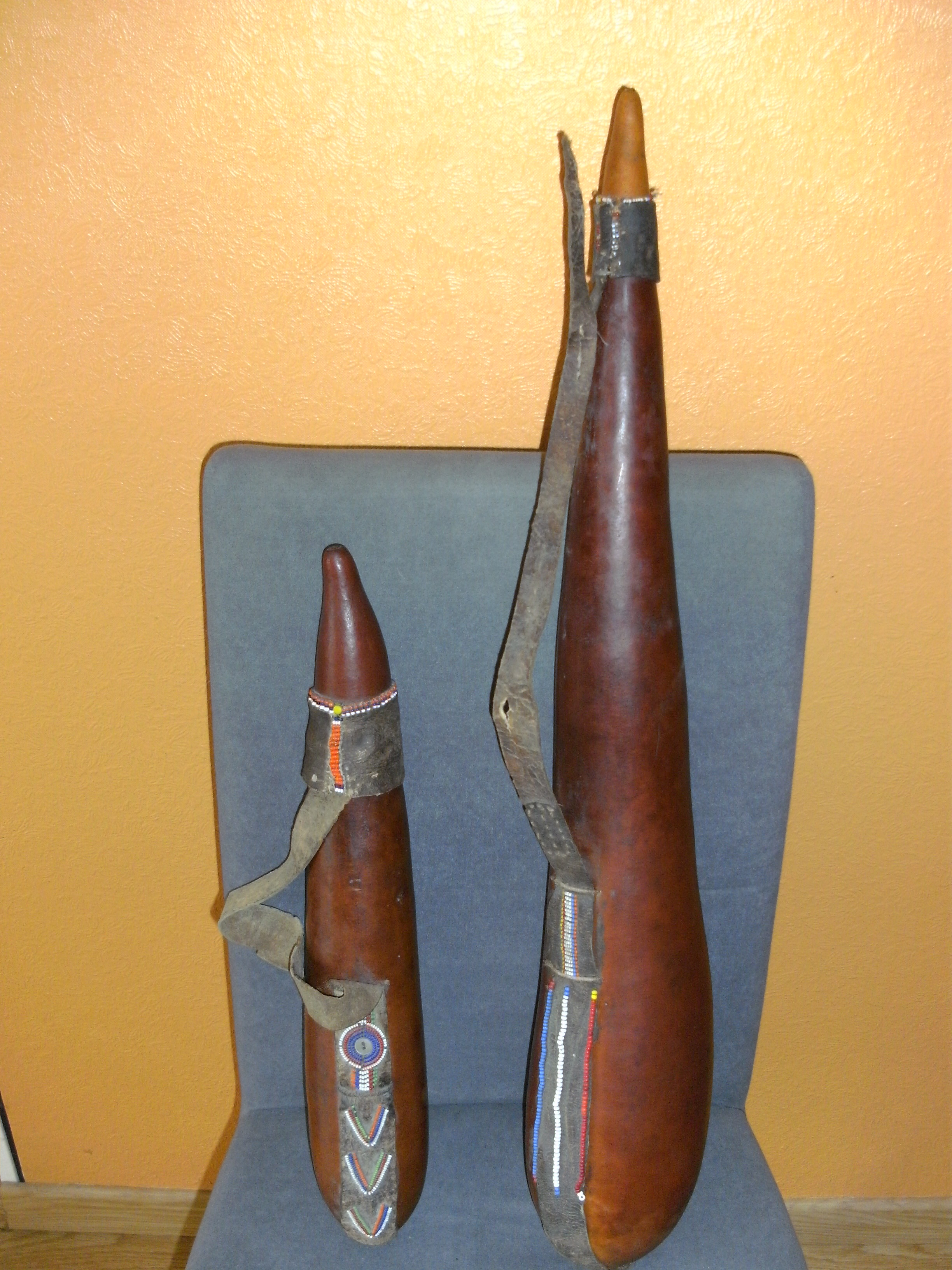 Two "Inkri" (singular "enkri"), gourds of the Maasai used for carrying milk)